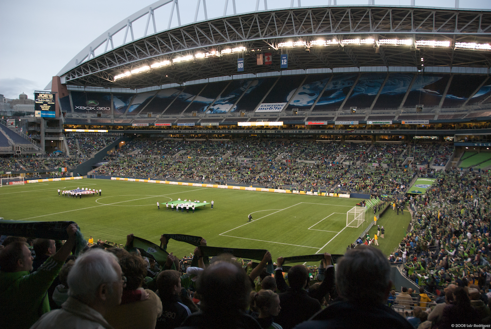 Pre-game at Qwest Field in Seattle, USA in April 2009. The ground is home to the Seattle Sounders of Major League Soccer.